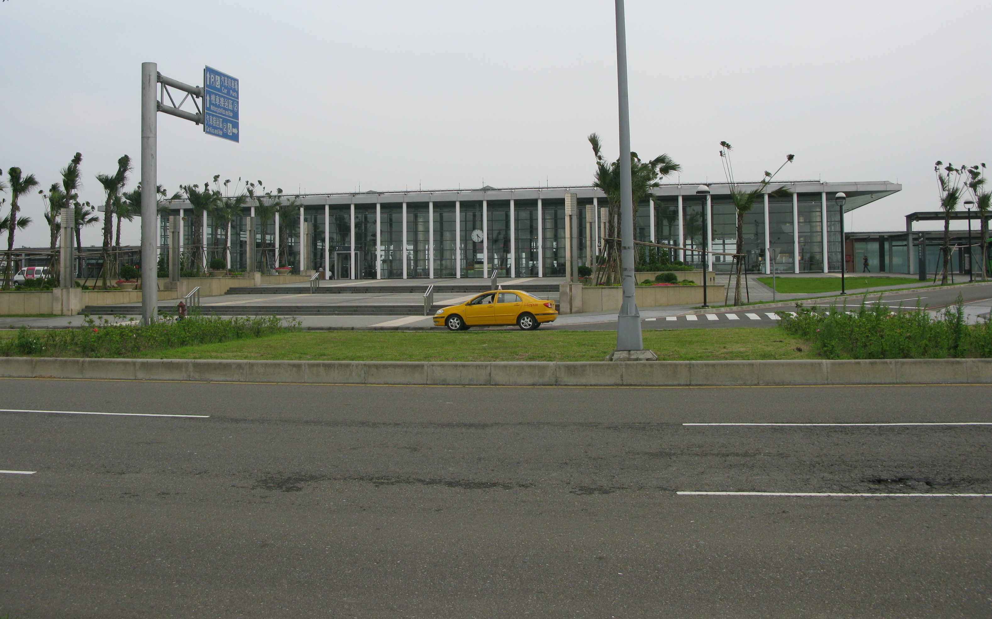 THSR-Taoyuan Station-3 , Taiwan